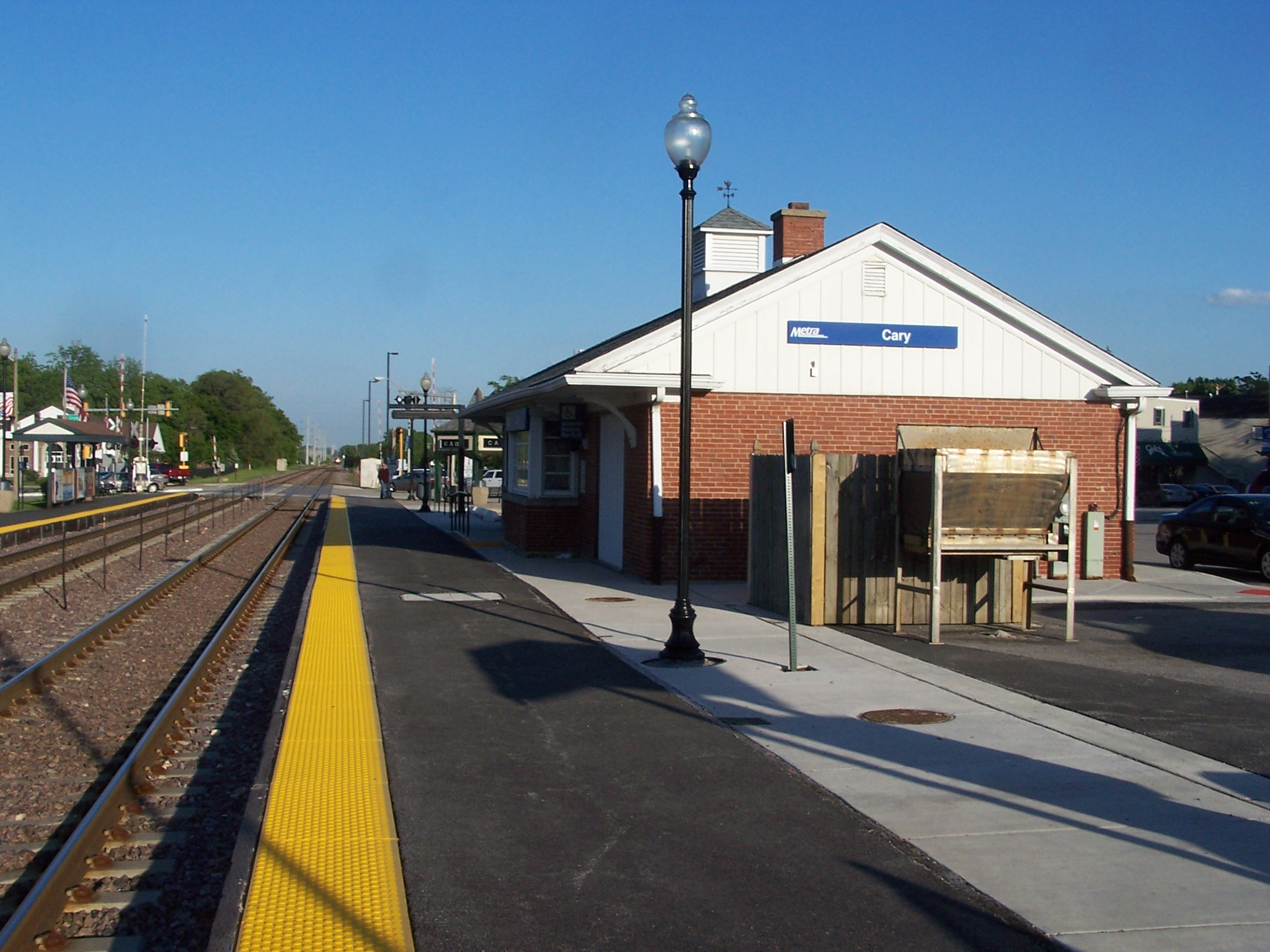 Cary, Illinois - Metra Station